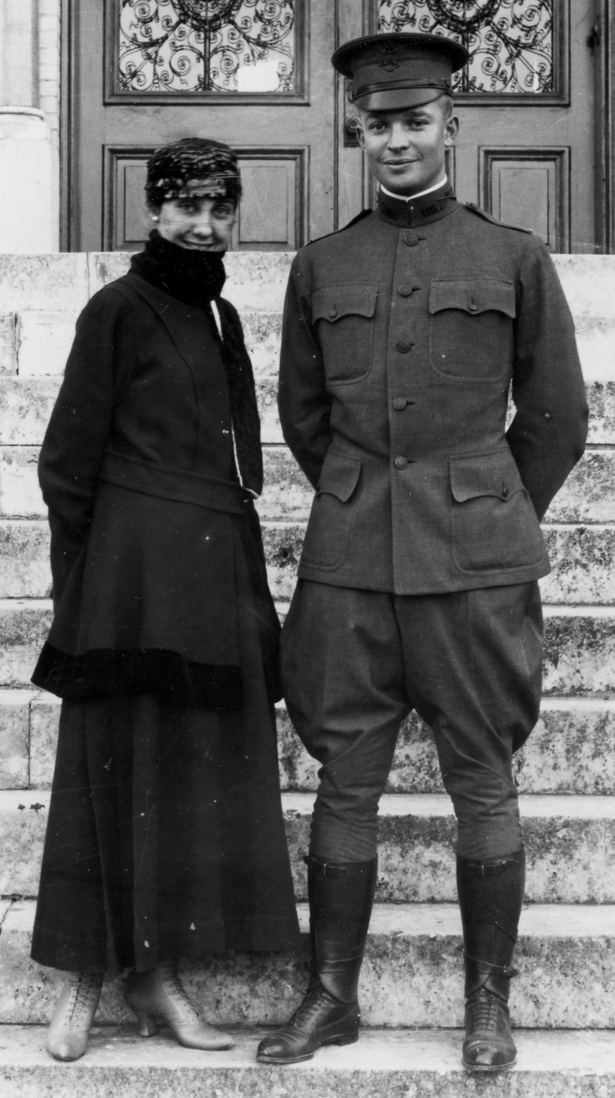 Mamie Eisenhower and Dwight D. Eisenhower on the front steps of St. Louis Hall (St. Mary's University), San Antonio, Texas 1916